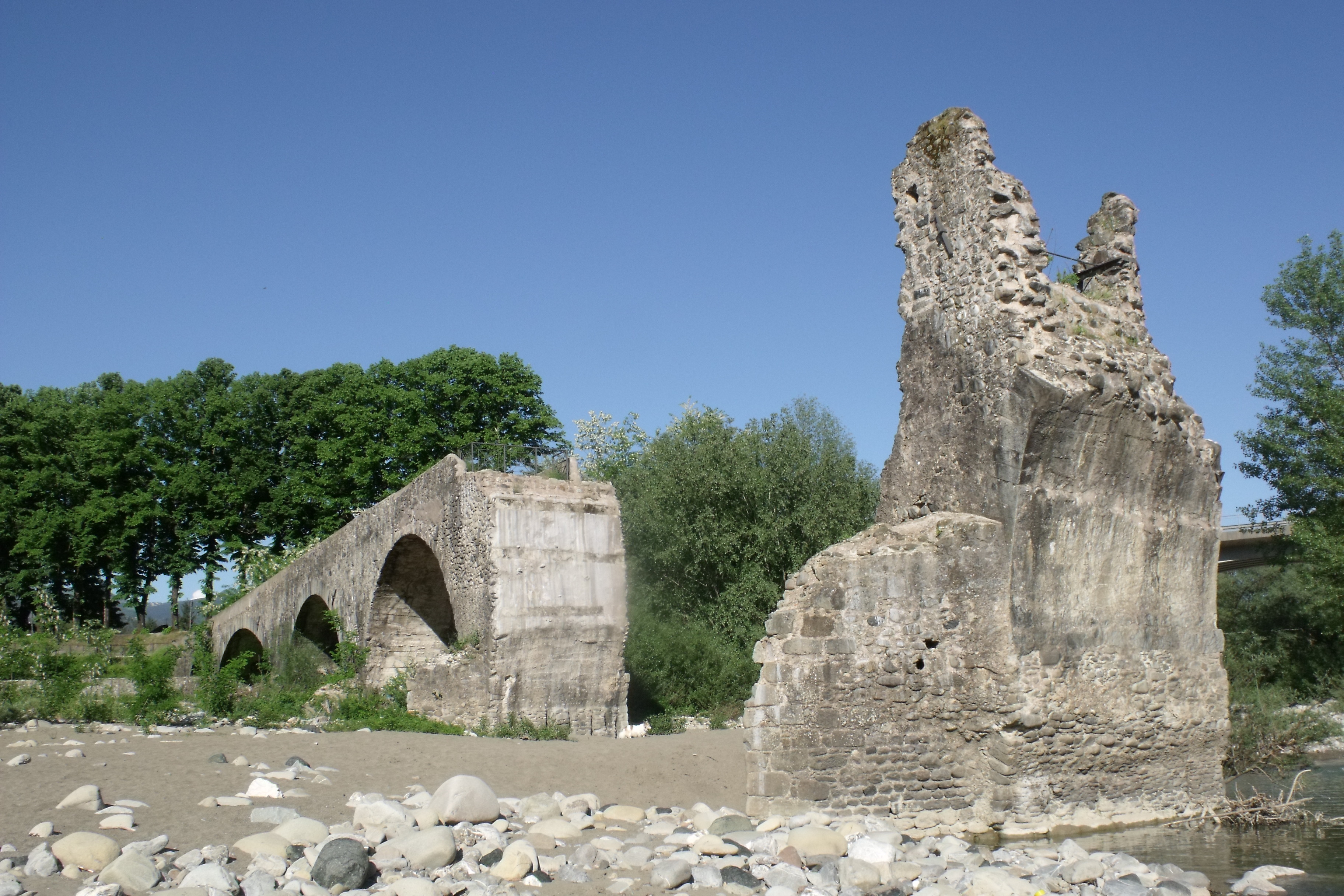 The Bridge Ponte Romano in Brugnato, Province of La Spezia, Liguria, Italy